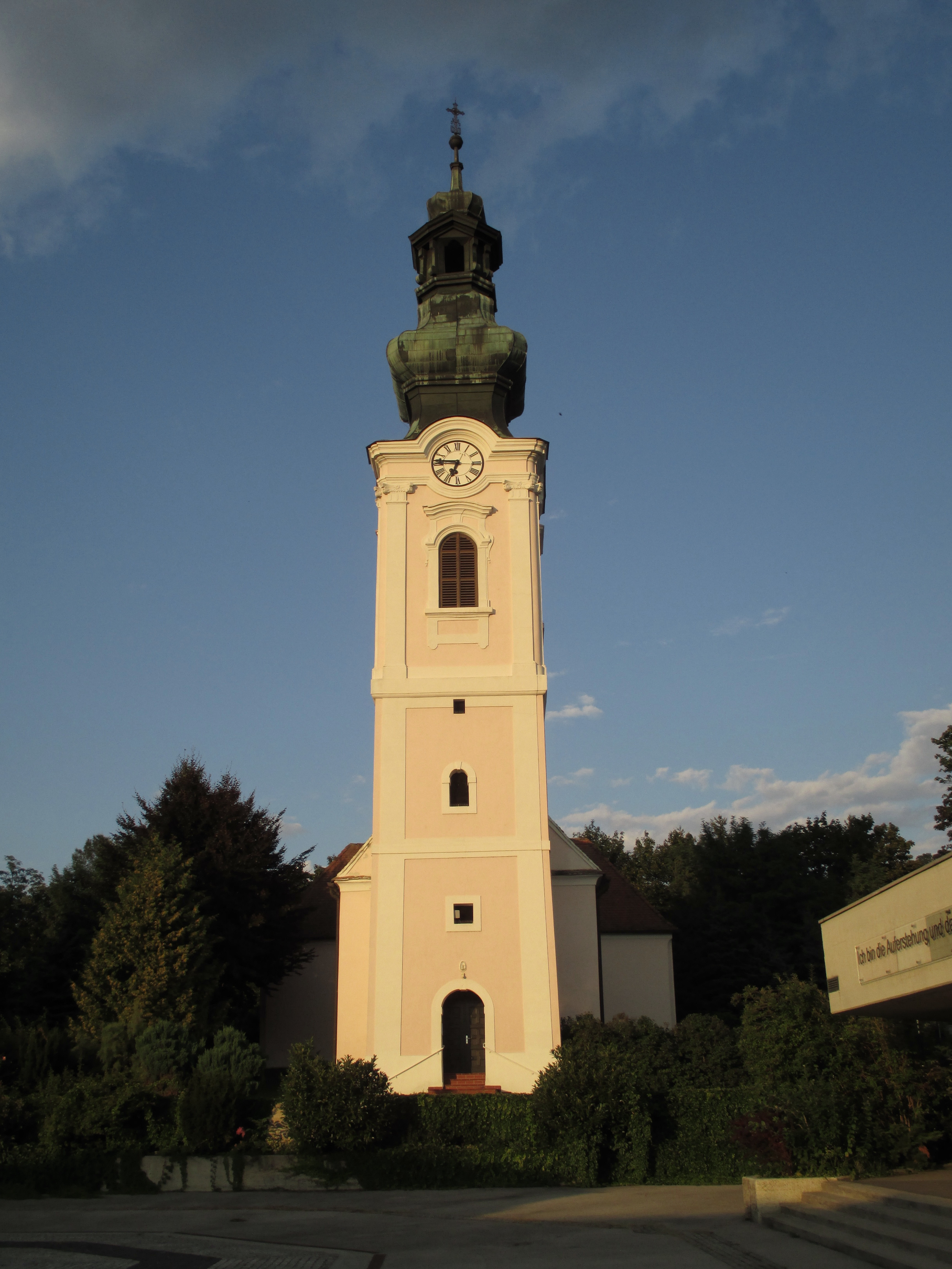 Church Oberwart